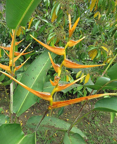 Dick Culbert: Heliconia latispatha is said to be the species most commonly met in the wild, but is also one of the most variable, ranging from red through orange to yellow. The wild, sharp bracts are typical (if not definitive). Widespread in the neotropics